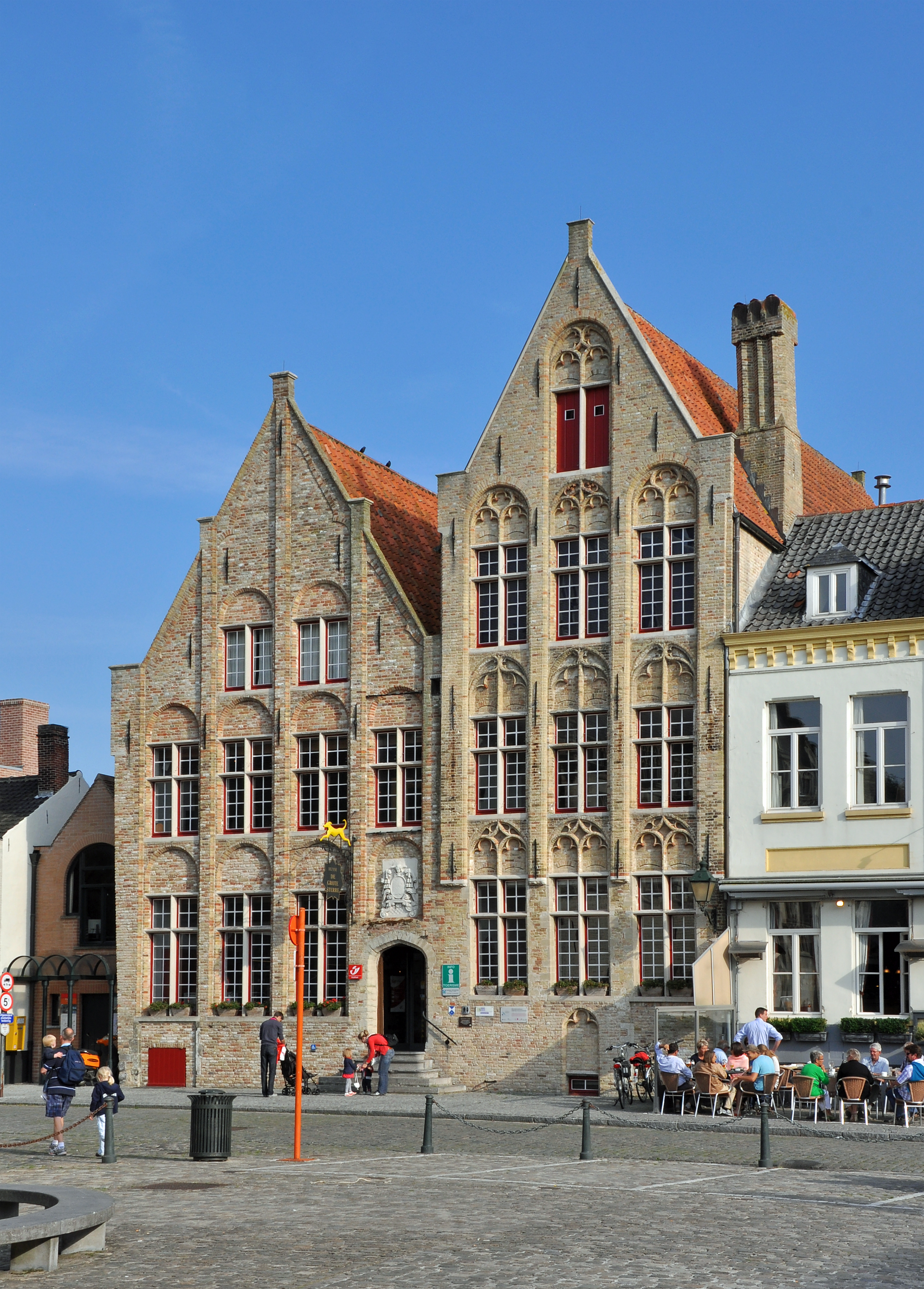 Damme (Belgium): house De Grote Sterre